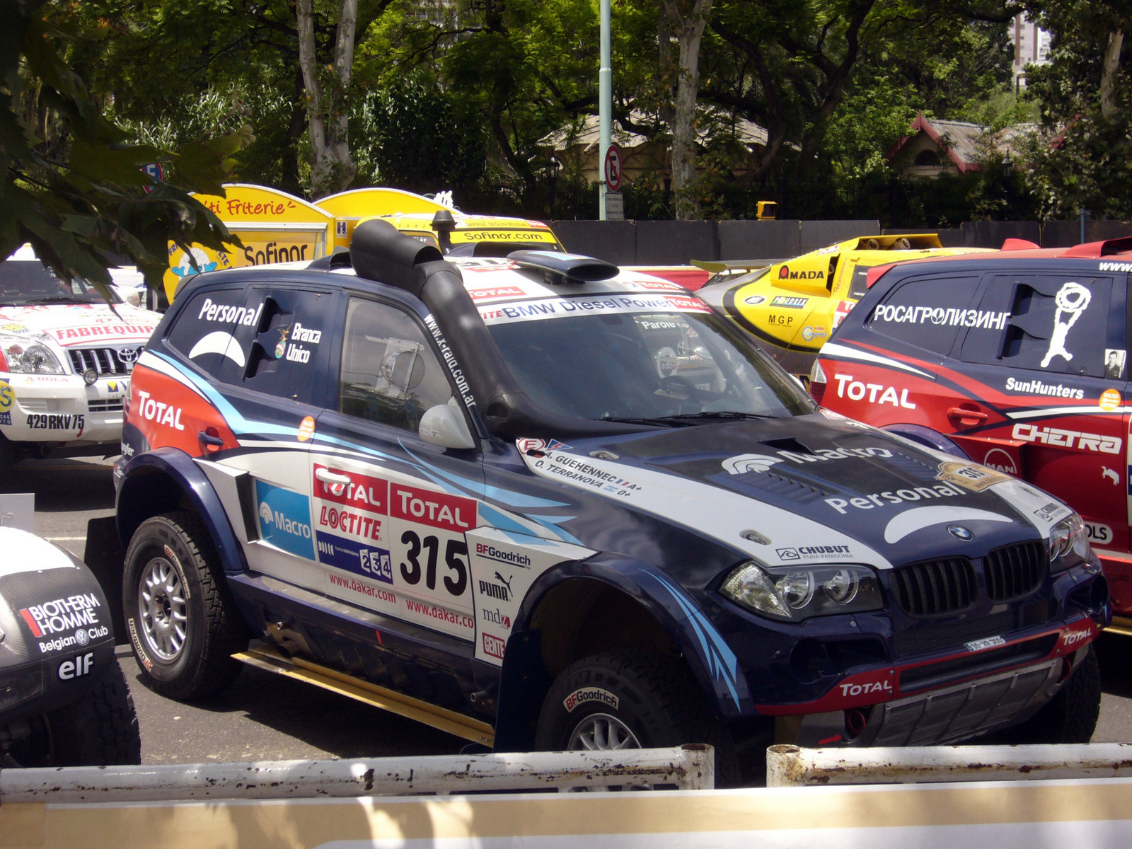 Orly Terranova's BMW X3 parked before the start